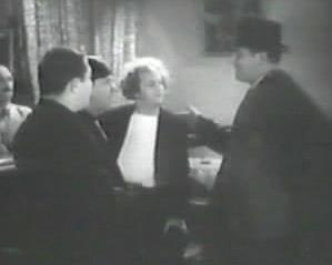 Ted Healy and his Stooges